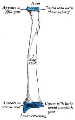 Plan of the development of the radius by three centres.